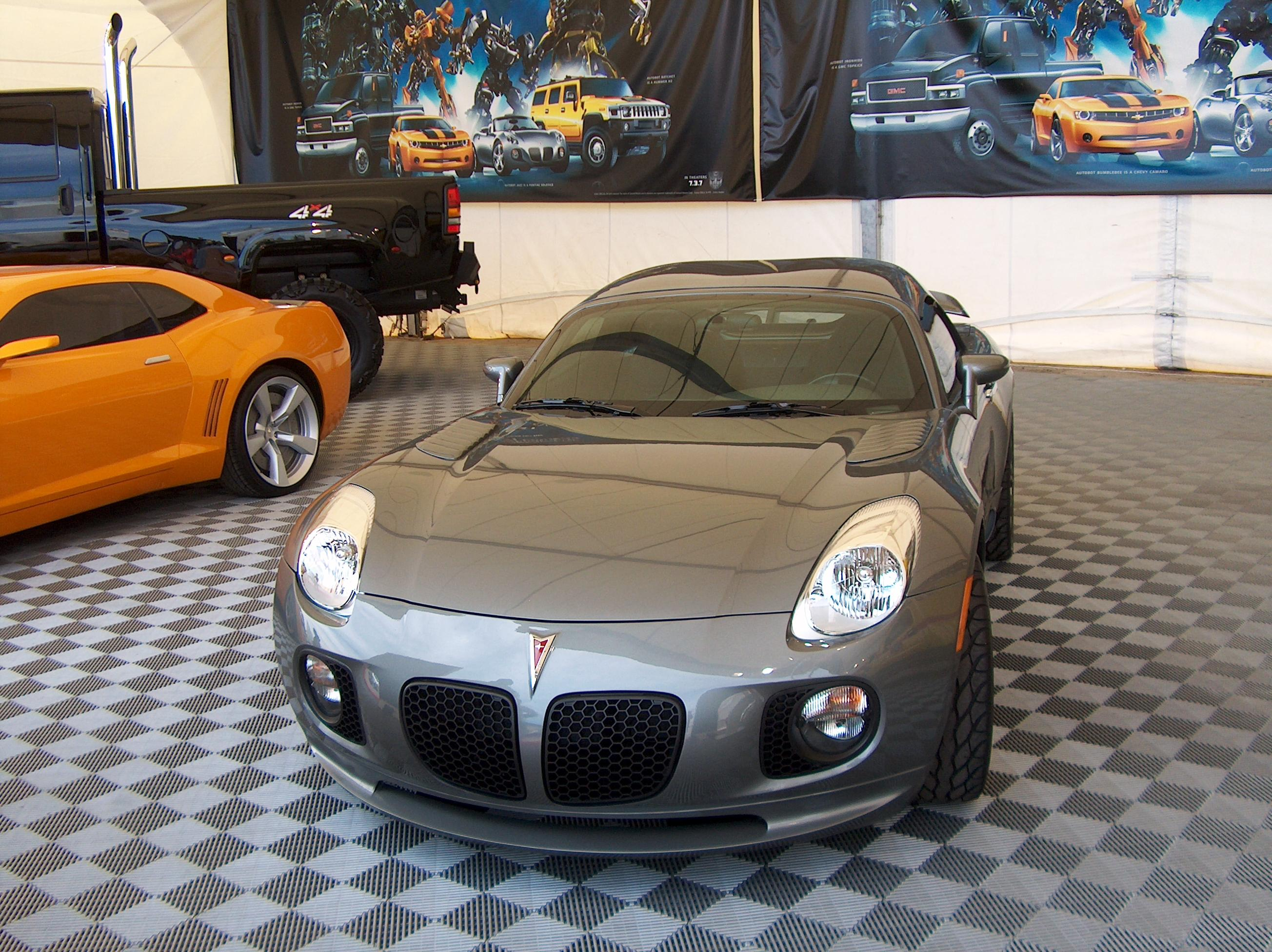 Jazz at the Detroit River Walk Festival. Picture by Mathew Ignash.